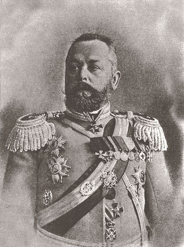 Alexandr Vasilievich Samsonov, Russian general (1859-1914)